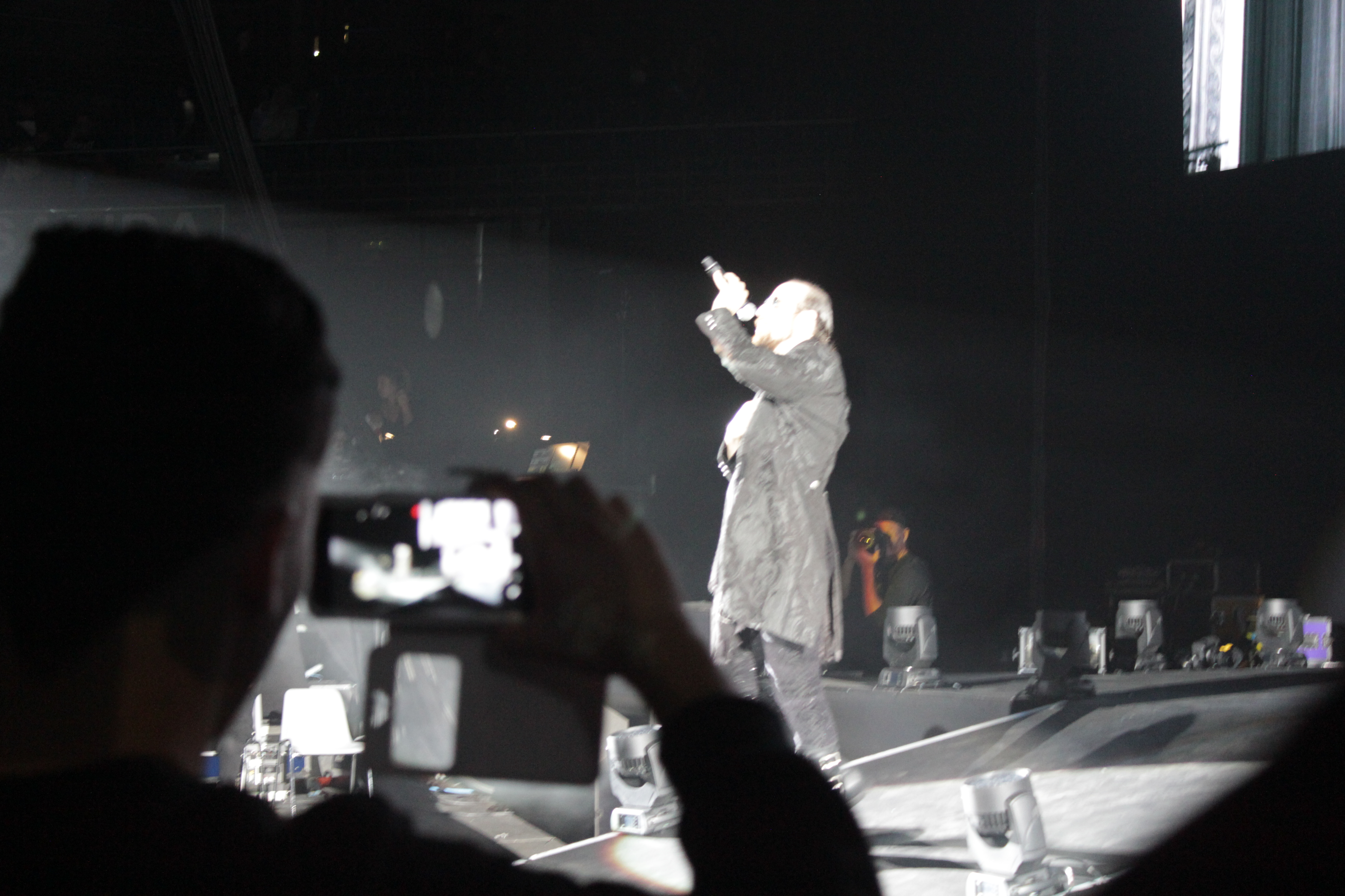 Aiden English as The Drama King